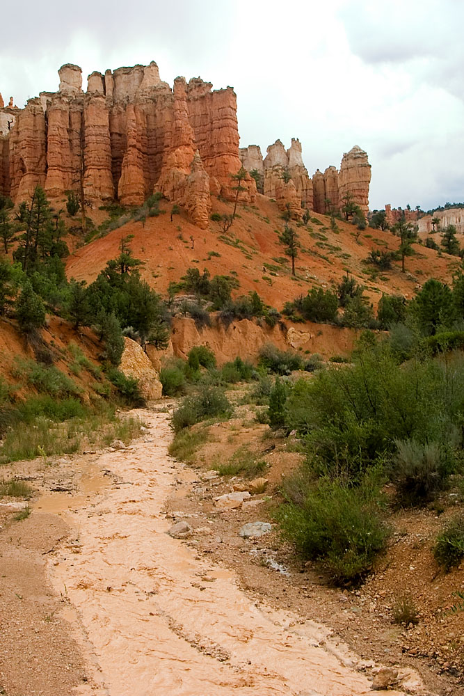 Runoff from a summer storm fills the Tropic ditch with mud (2003), turning the water a orange color, Bryce Canyon National Park, Utah, USA